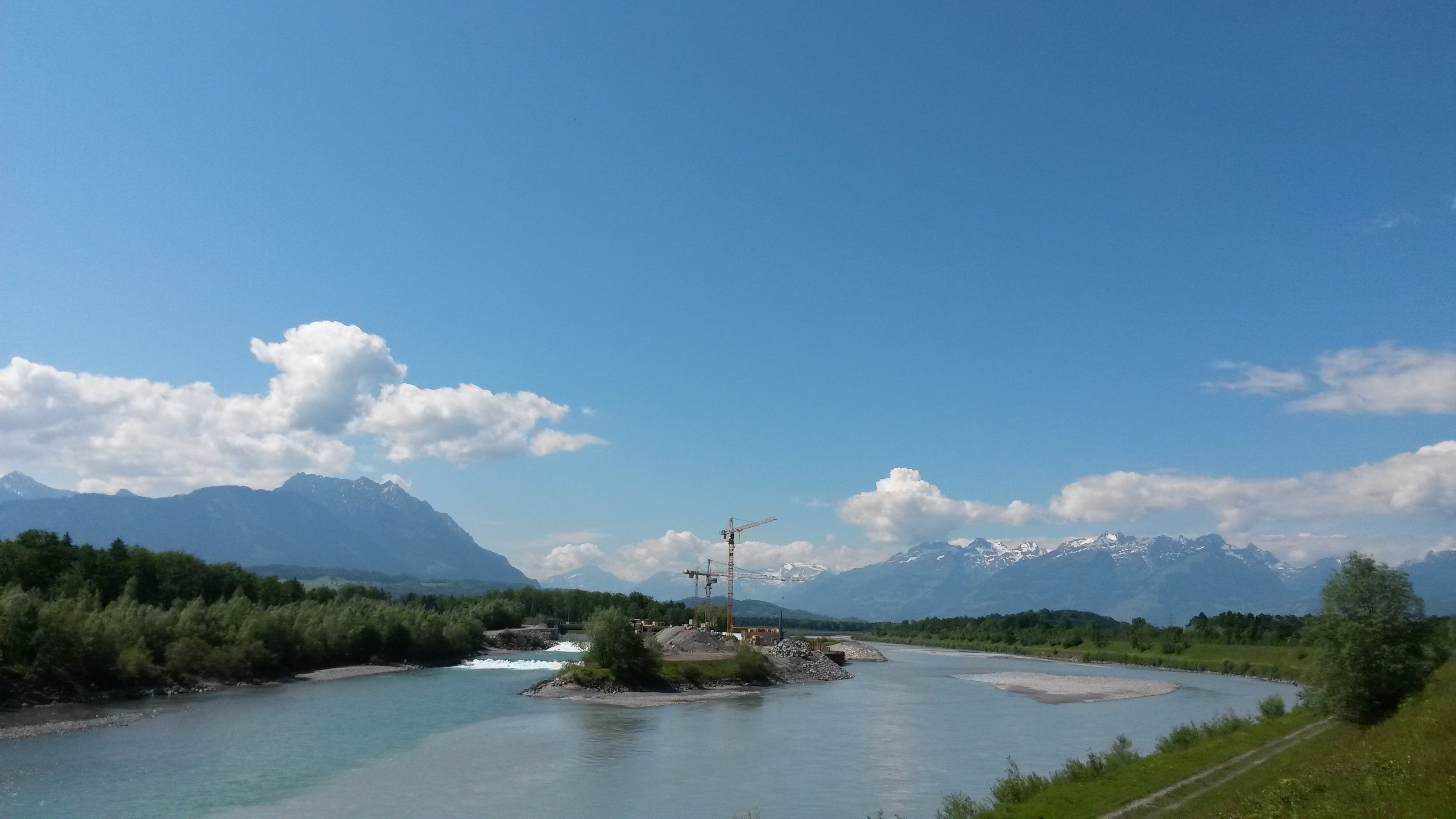 Illspitz Power plant construction two months before completion.